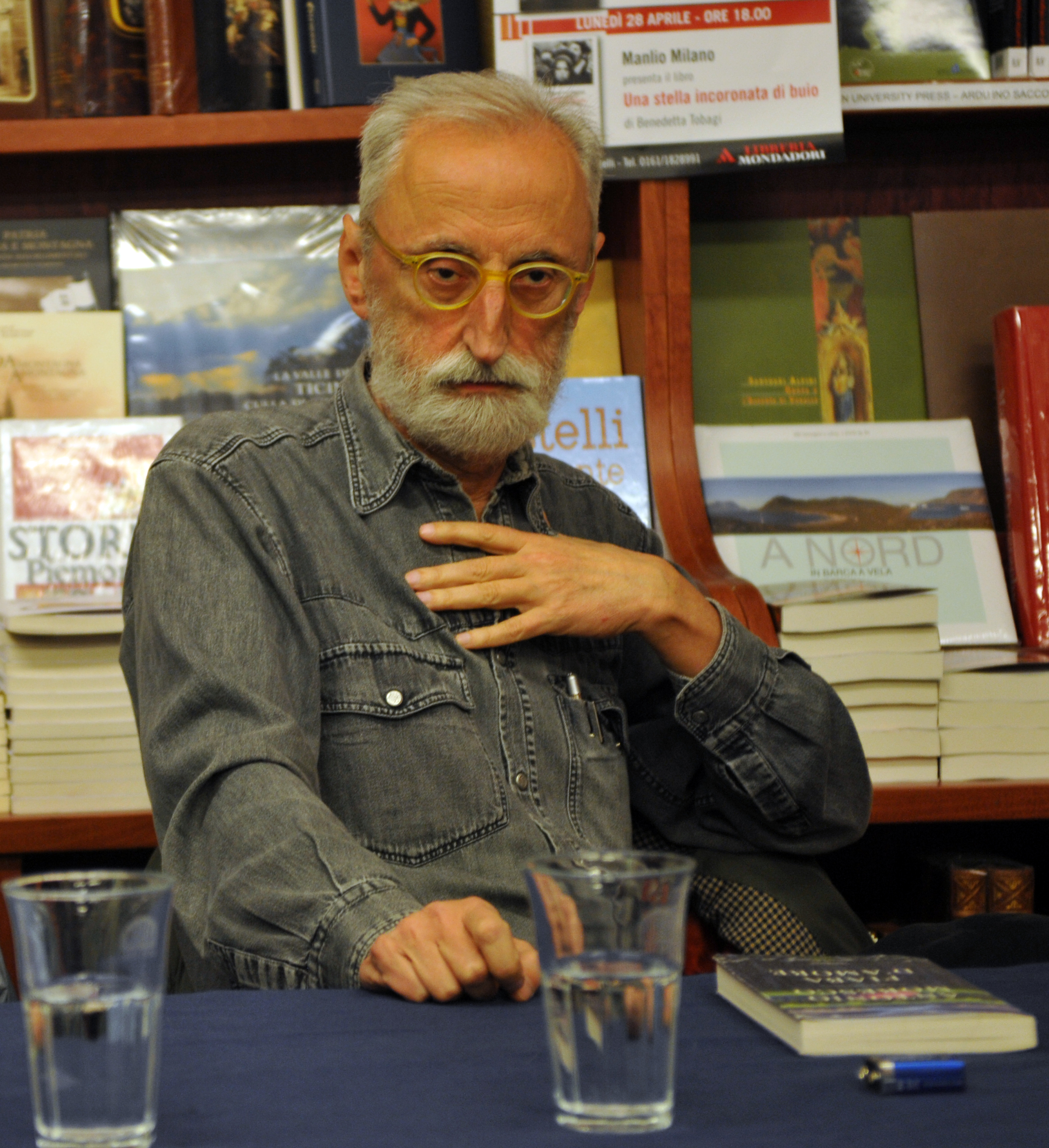 Italian writer Antonio Moresco in publica at a bookshop in Vercelli, April 2014